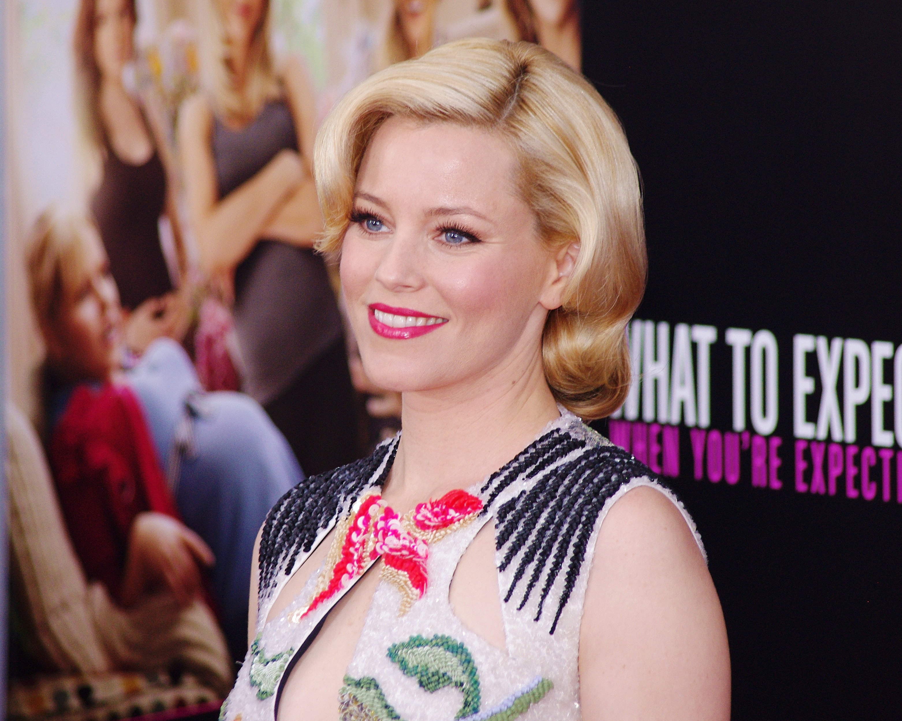 Elizabeth Banks at the 2012 premiere of What to Expect When You're Expecting in New York